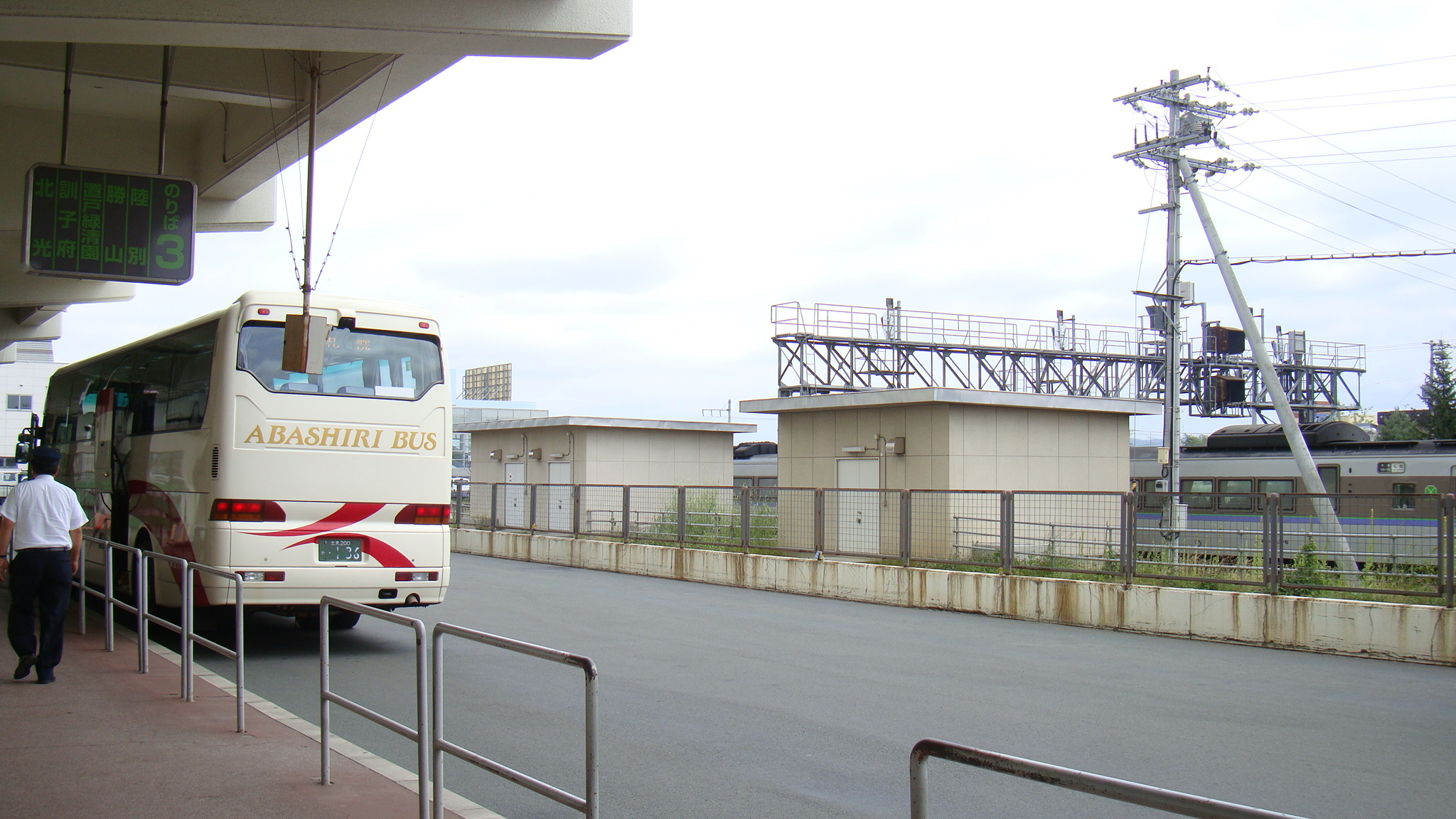 "Okhotsk (train)" and Highway Bus "Dreamint Okhotsk" Kitami to Sapporo.